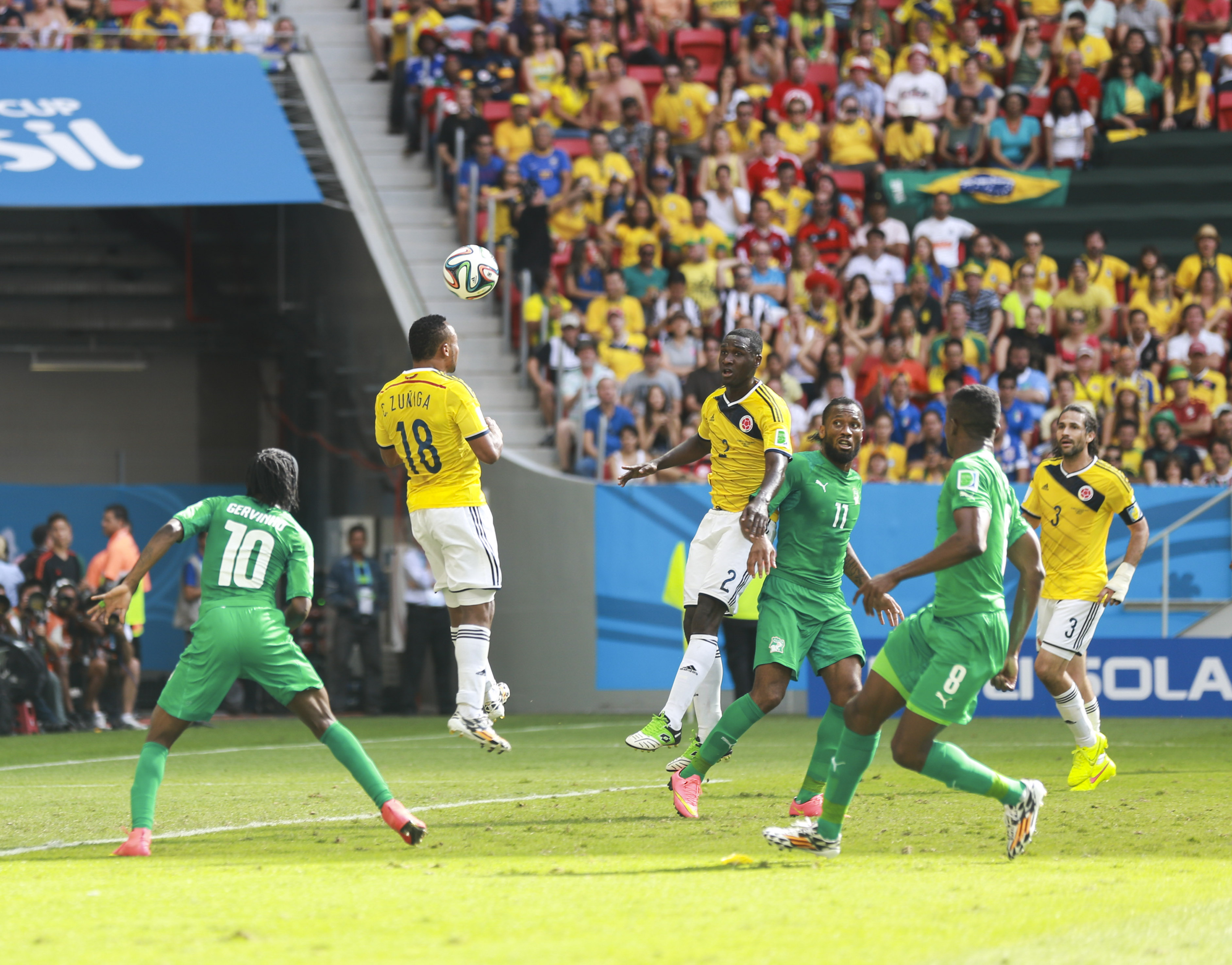 Colombia and Ivory Coast match at the FIFA World Cup 2014-06-19